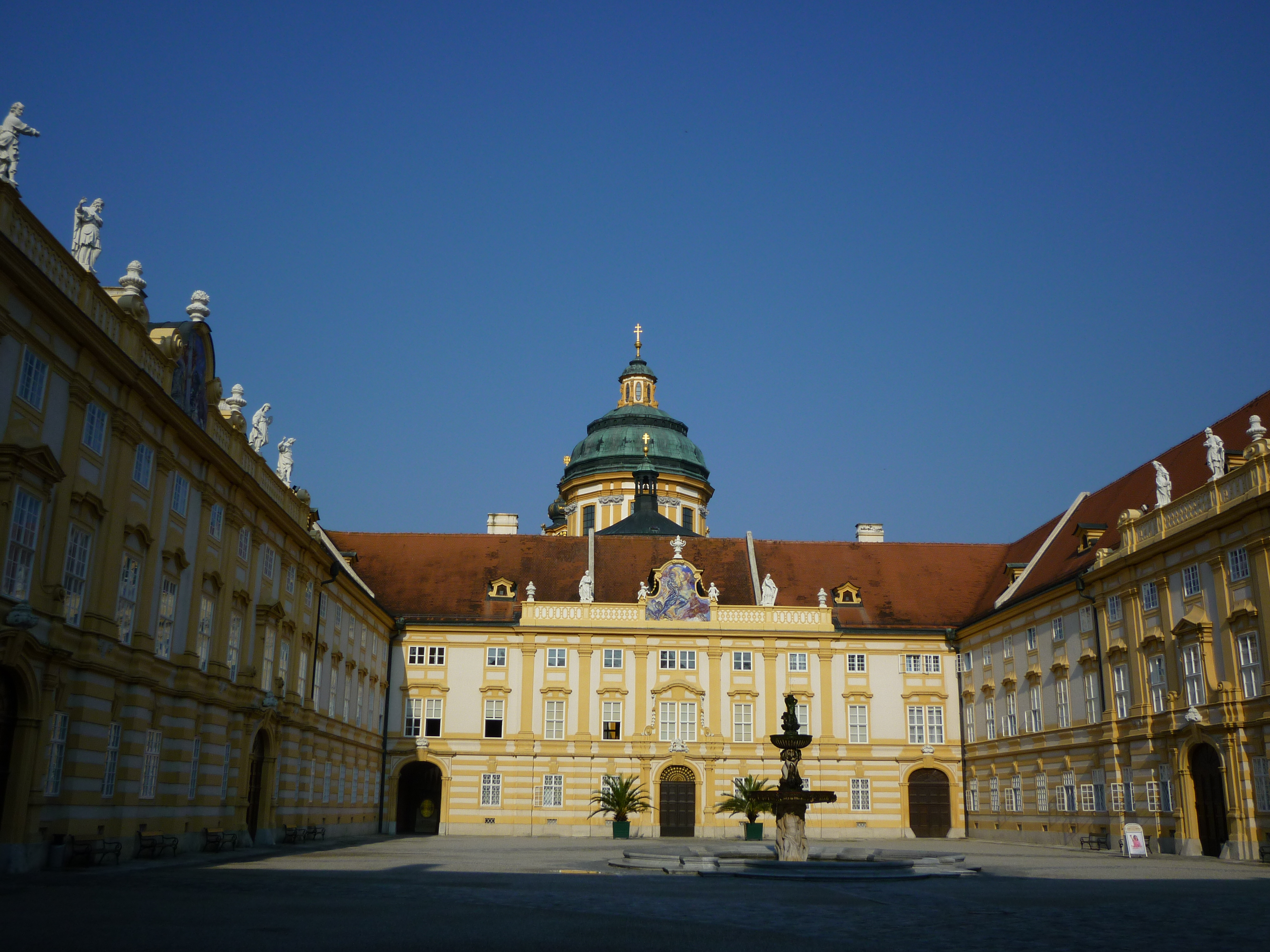 Prelate's courtyard of Melk Abbey